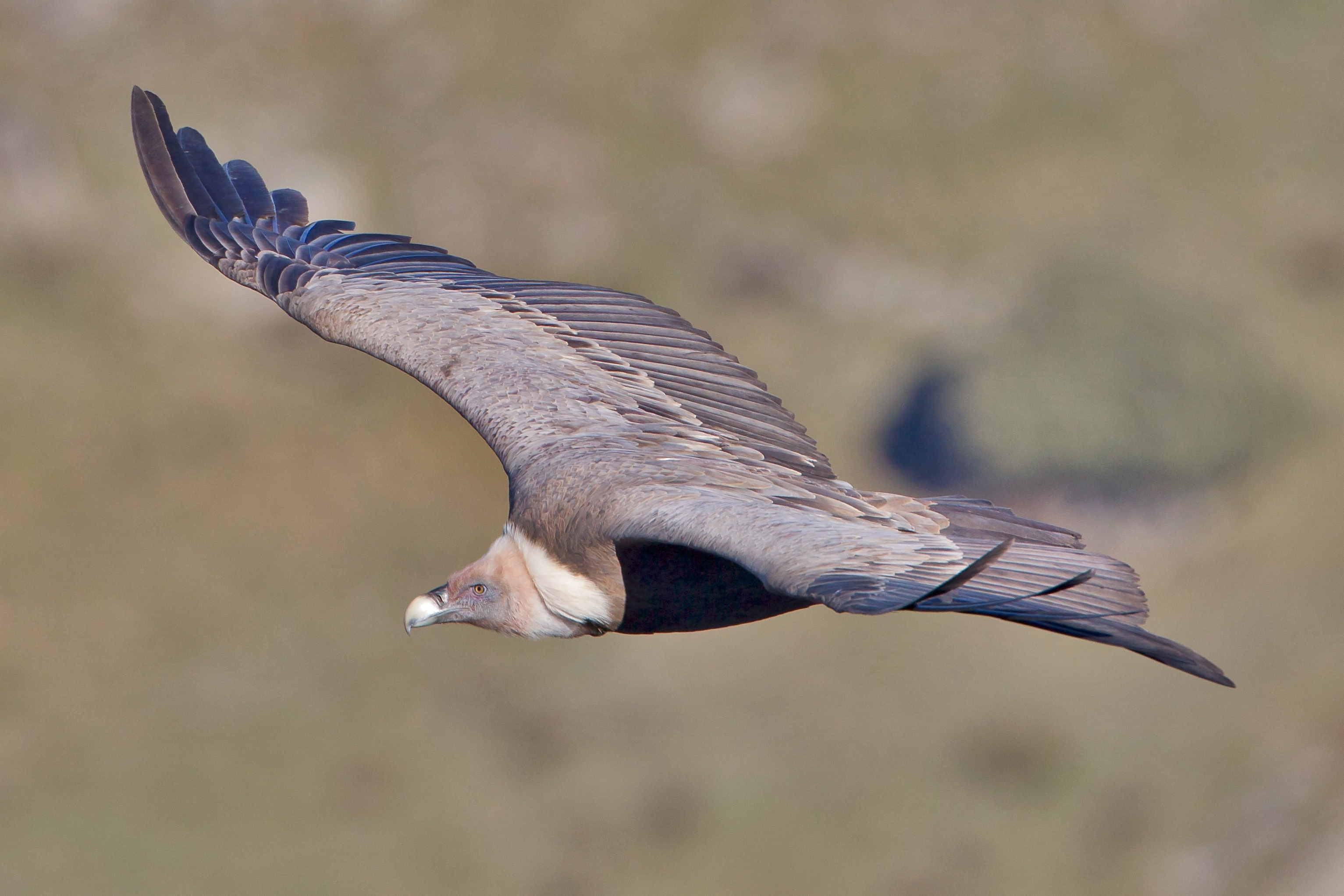 Griffon Vulture